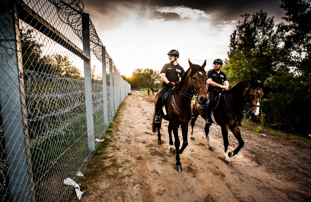 Mounted policemen at Hungary-Serbia border barrier